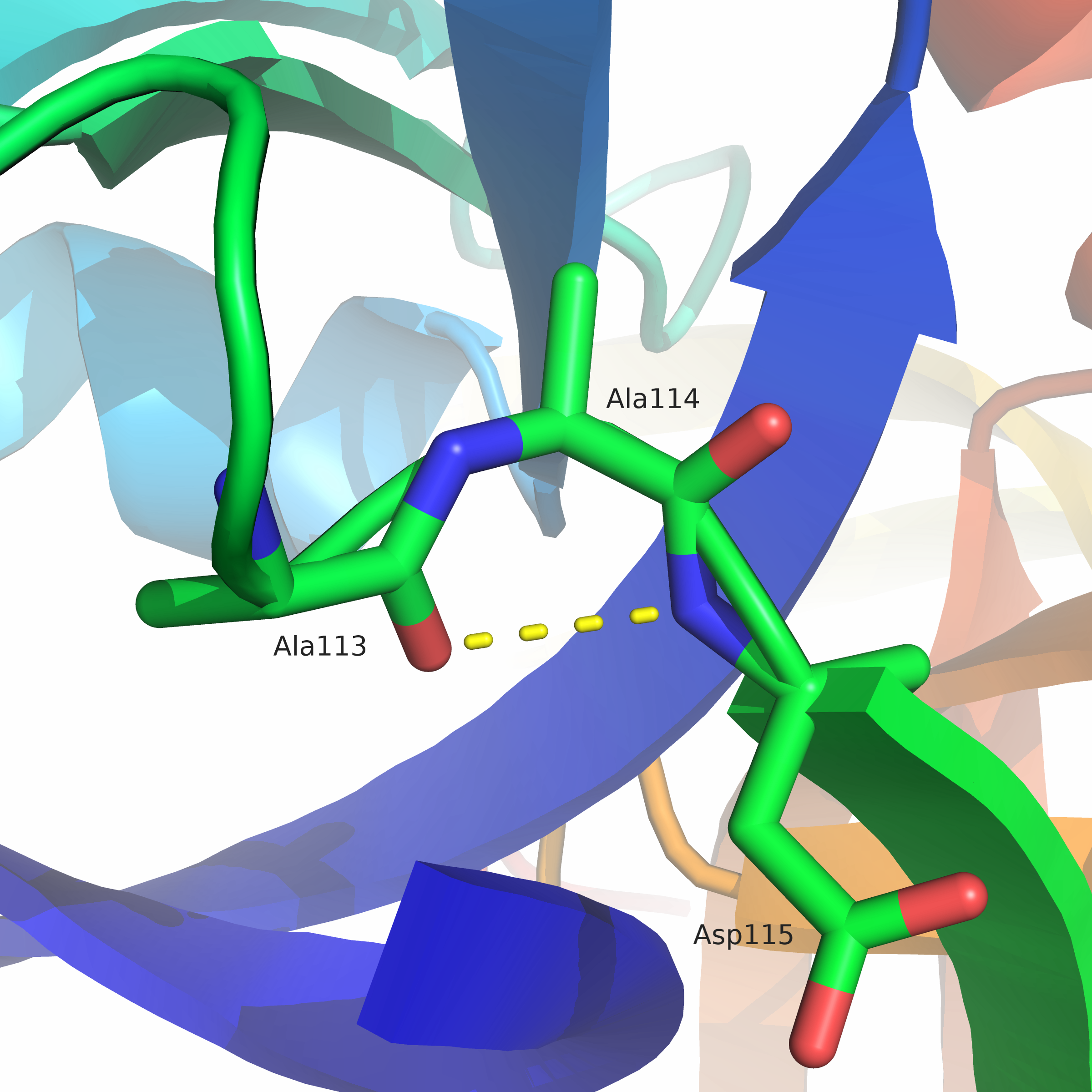 Ribbon model of the inverse gamma turn of proteinase A, after PDB: 5SGA​.